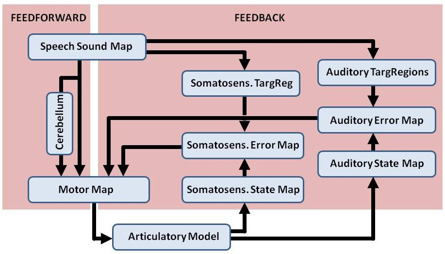 Structure of DIVA model following Guenther et al. 2007